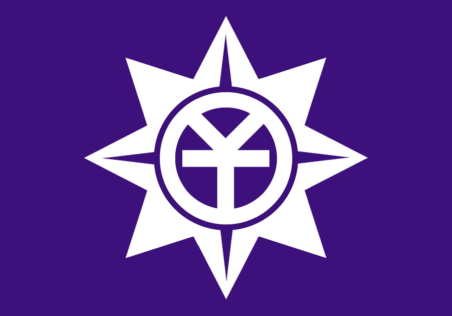 Flag of Okayama, Okayama